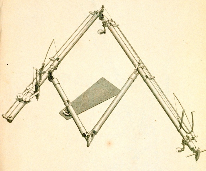 Sorenson's engraving pantograph Fig. No. 27, Report of Superintendent ... 1867, cropped to just the image of the Pantograph.